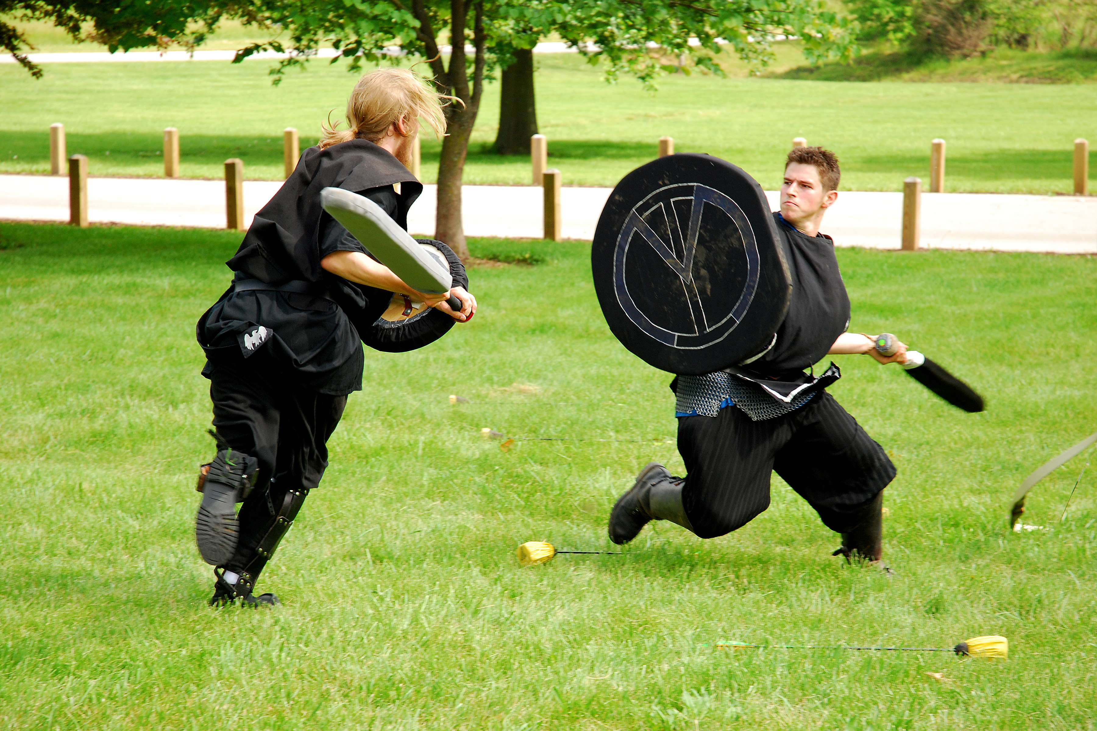 Pictures from a Dagorhir event taking place in Missouri.